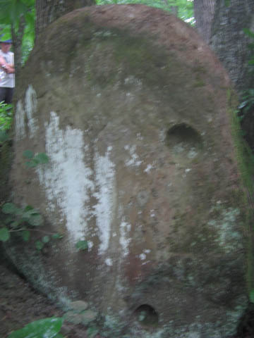 Polishing stone(?) place "3 oak" (Russia, Dagomys)